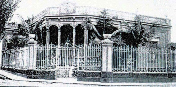 Residence of Genaro Castro Iglesias in Miraflores, Lima.